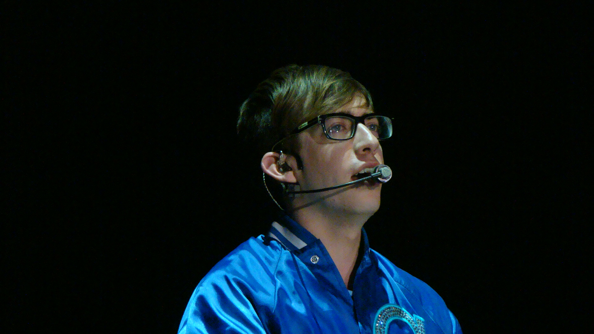 Safety Dance